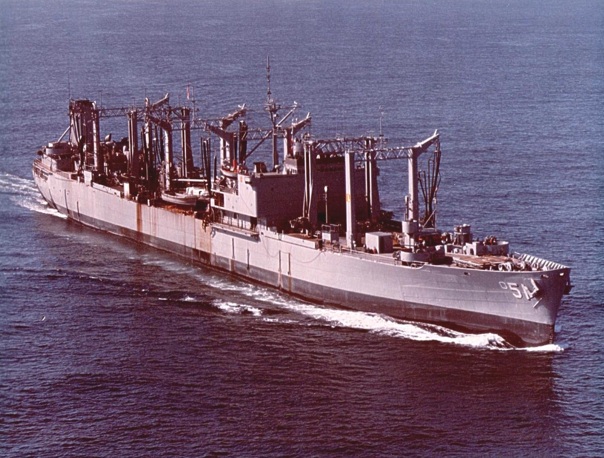 The U.S. Navy fleet oiler USS Ashtabula (AO-51), circa 1969.